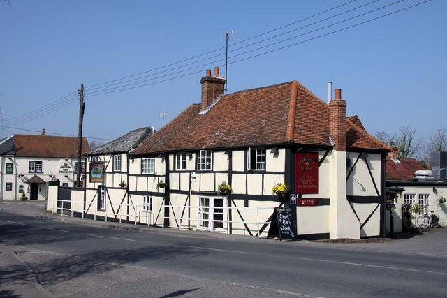 The Cherry Tree, High Street, Steventon, Oxfordshire (formerly Berkshire)